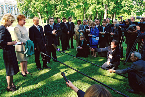 CATHERINE PALACE, TSARSKOYE SELO. President Putin with Finnish President Tarja Hallonen at a press conference.